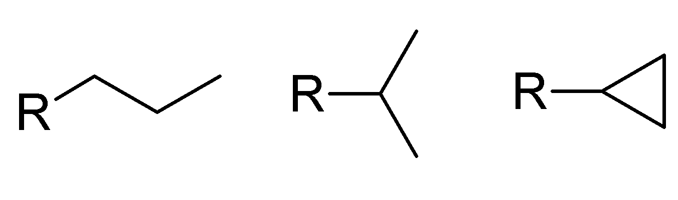 Chemical structure of Propyl groups